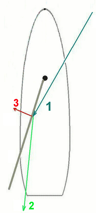 Diagram of the forces exerted when sailing against the wind. 1) Wind, 2) diverted wind, 3) resulting propulsion. The diagram is simplified and the arrows do not show real vectors. Sail bending, and wing-effects that nestle the wind, are not shown. The diagram demonstrates that the correct position of the sail will produce propulsion. Other effects and a possible keel will enhance the effect of propulsion.